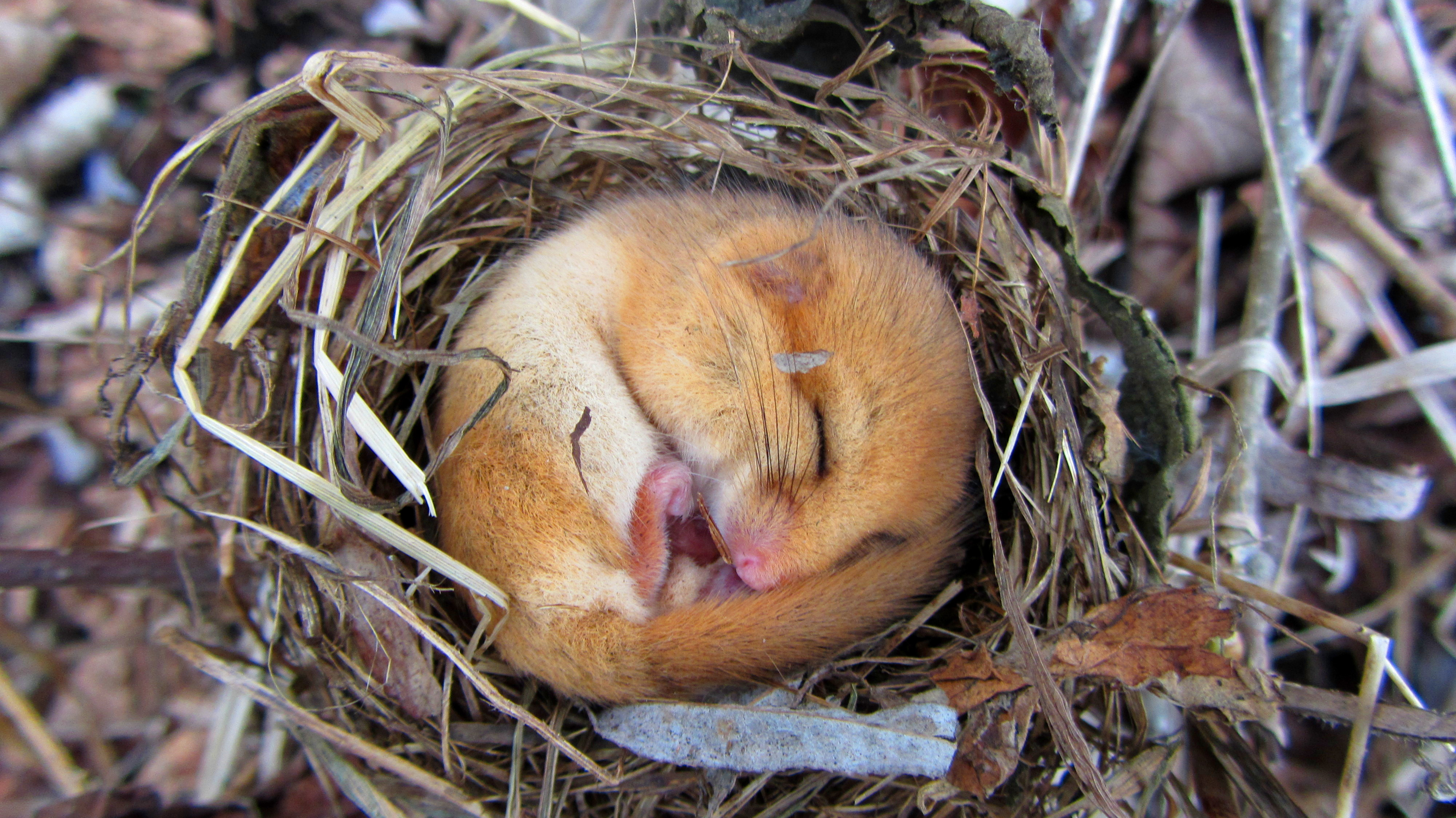 A hazel dormouse or common dormouse (Muscardinus avellanarius) during hibernation found in a bird box. Central Germany end of march.